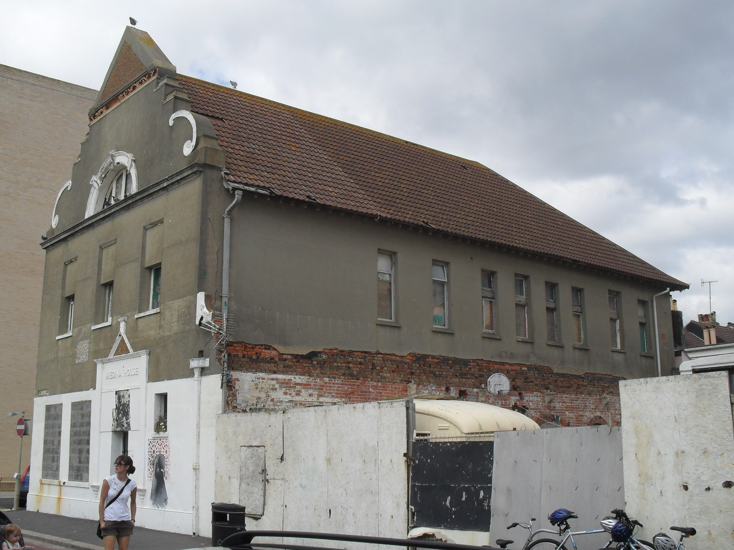 Medina House, Kings Esplanade, Hove, City of Brighton and Hove, England. A Turkish bath and slipper bath which was built in 1893–94 and opened on 13 September 1894. The "curious, whimsical" building has (as of 2015) suffered two fires and been the subject of nine planning applications to demolish it. The building seems to polarise opinion locally, with many people determined to save it and many others keen to see the site redeveloped. The building has "locally listed" status and was retained on Brighton and Hove's Draft Local List of Heritage Assets in March 2015 when the whole list was reassessed. See here for the heritage assessment.